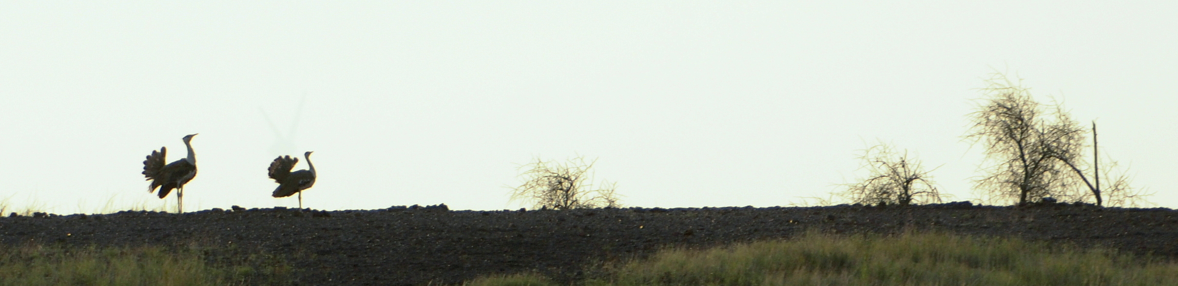 A Great Indian Bustard male (left) and female (right) displaying in Desert National Park, Rajasthan, India